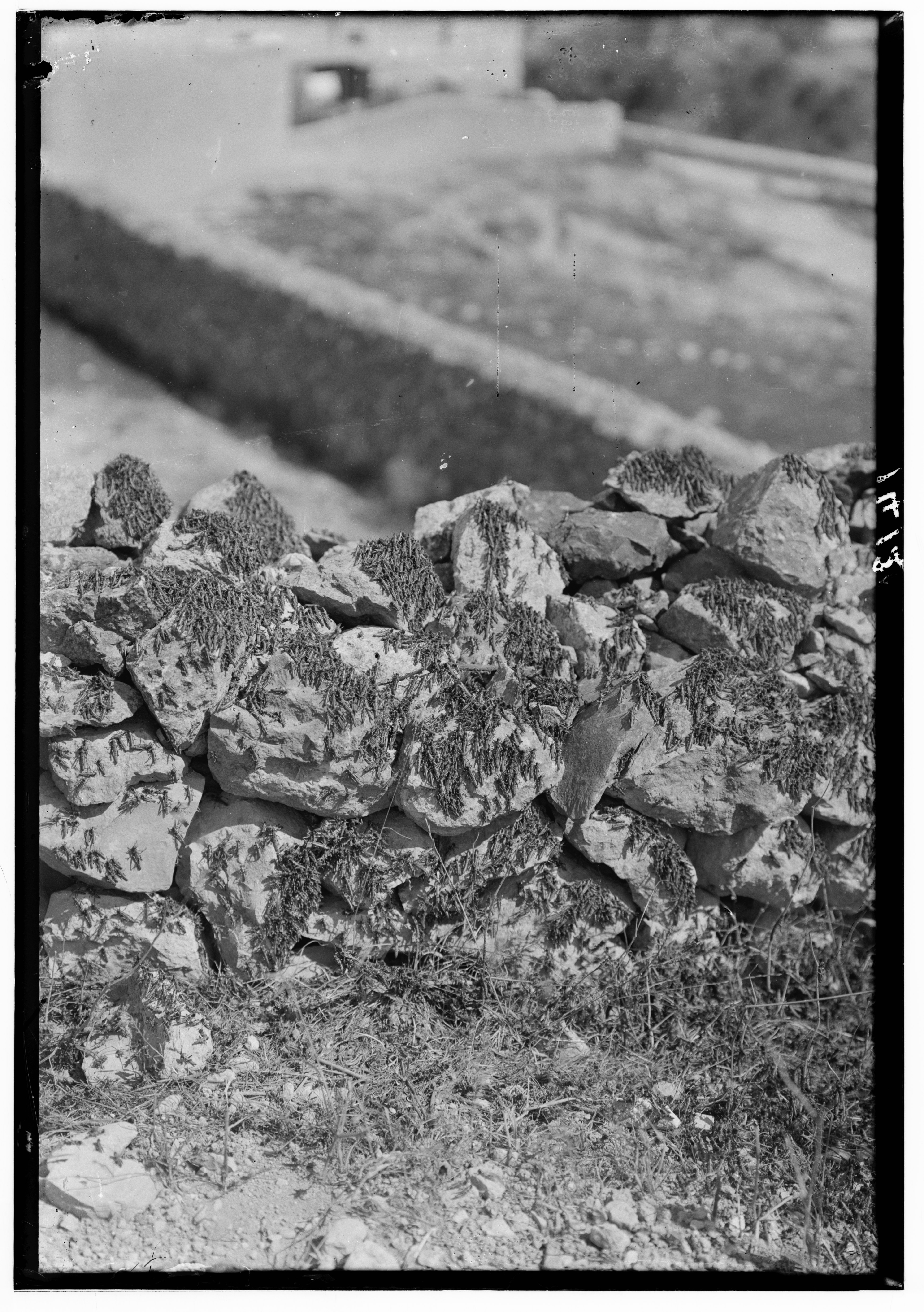 Title: The terrible plague of locusts in Palestine, March-June 1915. Locusts in larval stage, crossing a wall (Joel 2:7) Abstract/medium: G. Eric and Edith Matson Photograph Collection Physical description: 1 negative